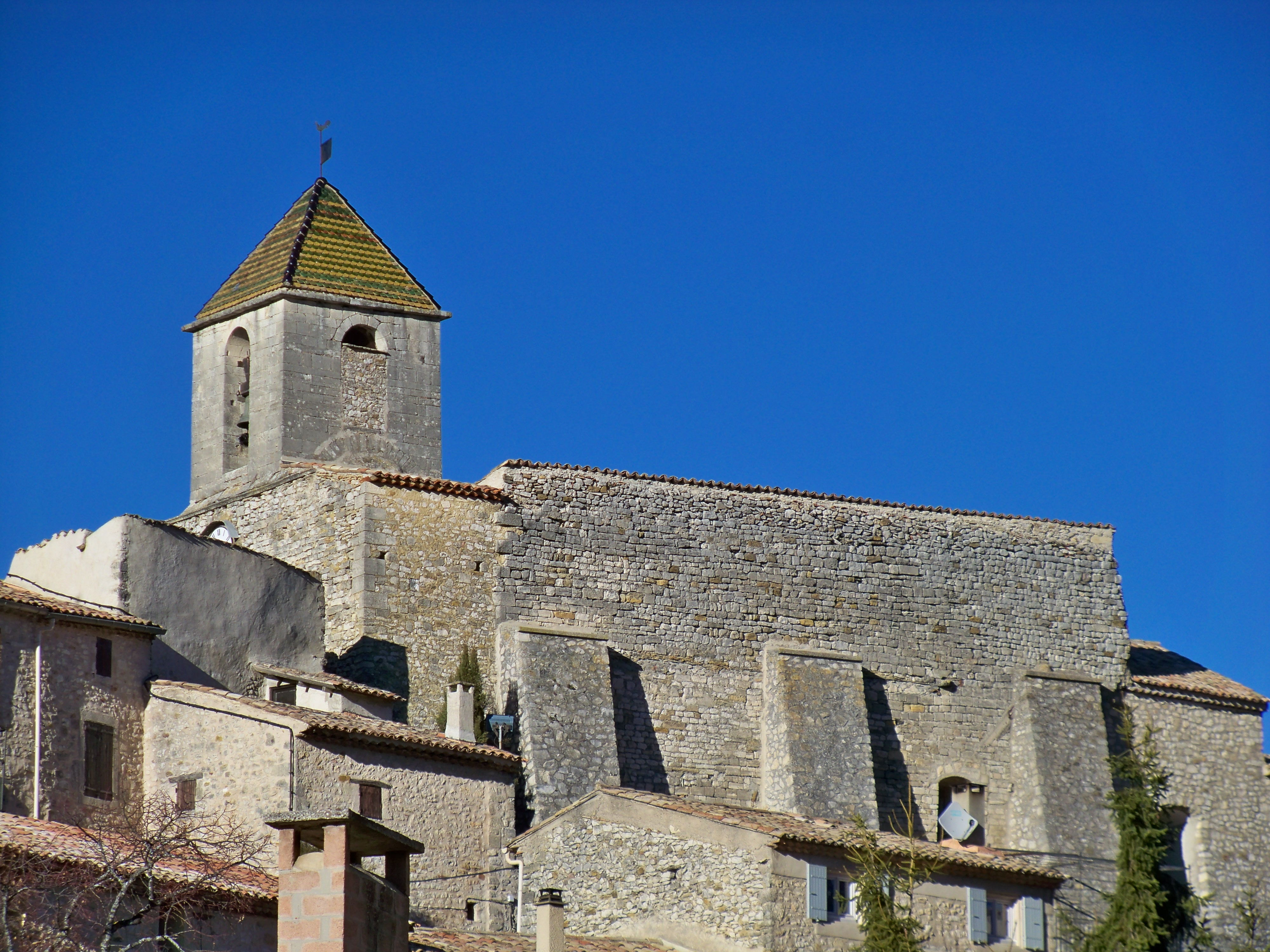 Church of Aurel (Vaucluse, France)